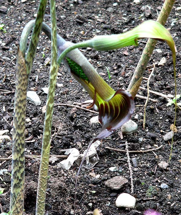 Photo of Arisaema_consanguineum at the UBC Botanical Garden in Vancouver